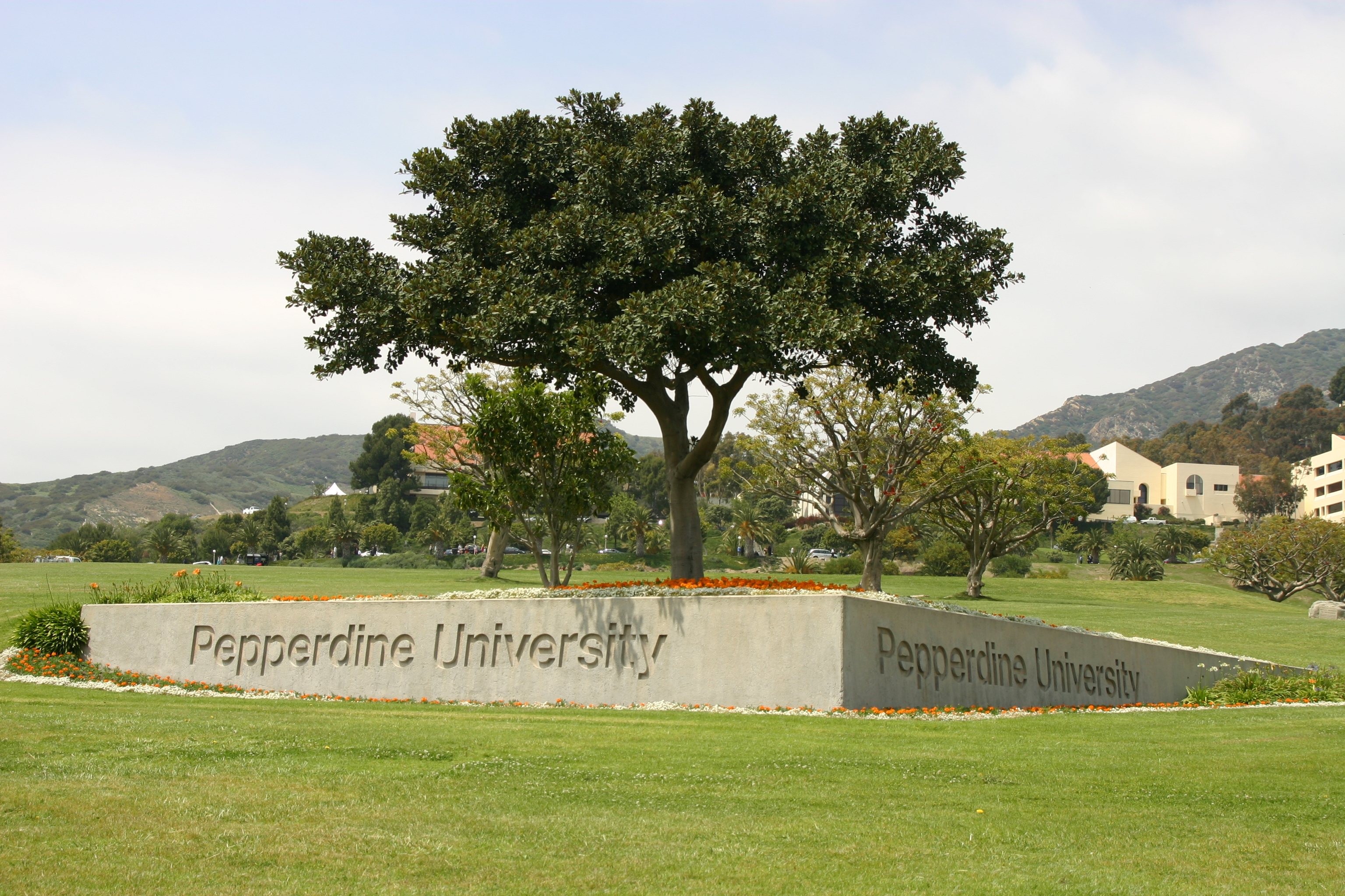 Pepperdine University — Malibu Canyon entrance sign, in Malibu, California.